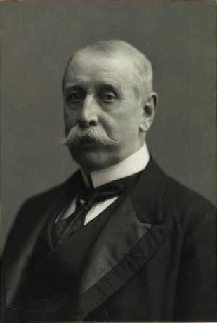 Christian Conrad Sophus Danneskiold-Samsøe (1836-1908), Danish count, estate owner, hofmarskal (Lord Chamberlain), and director of the Royal Danish Theatre